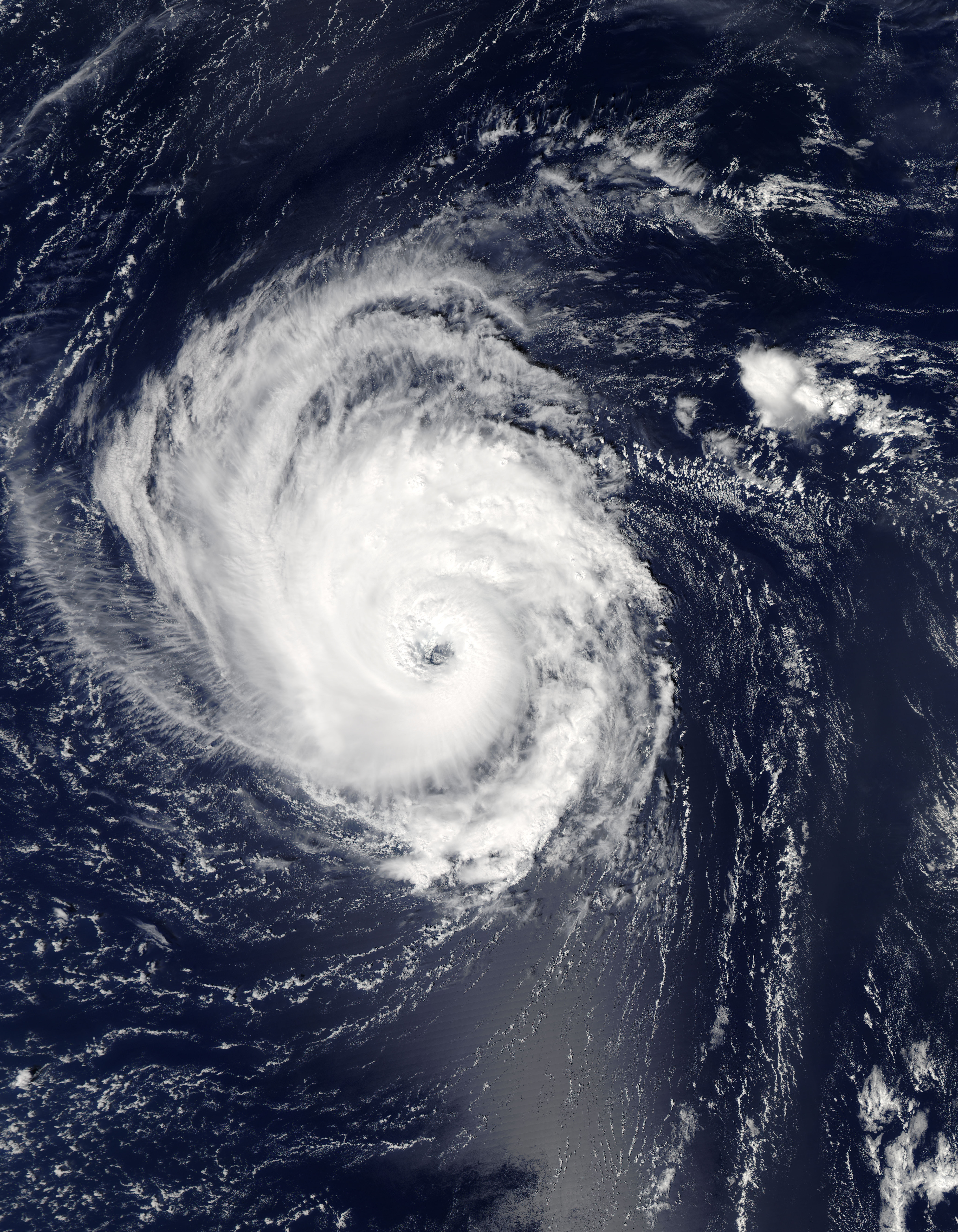 Hurricane Edouard (06L) in the Atlantic Ocean